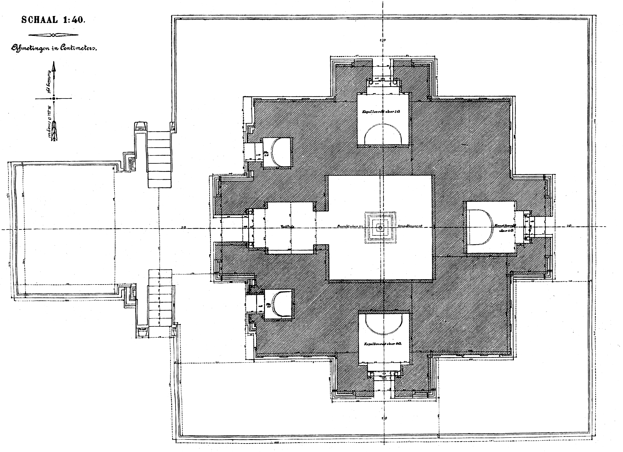 Plan of Singhasari temple (= Candi Singhasari), a 13th century syncretic Hindu-Buddhist temple in Singosari district, Malang Regency, East Java in Indonesia.